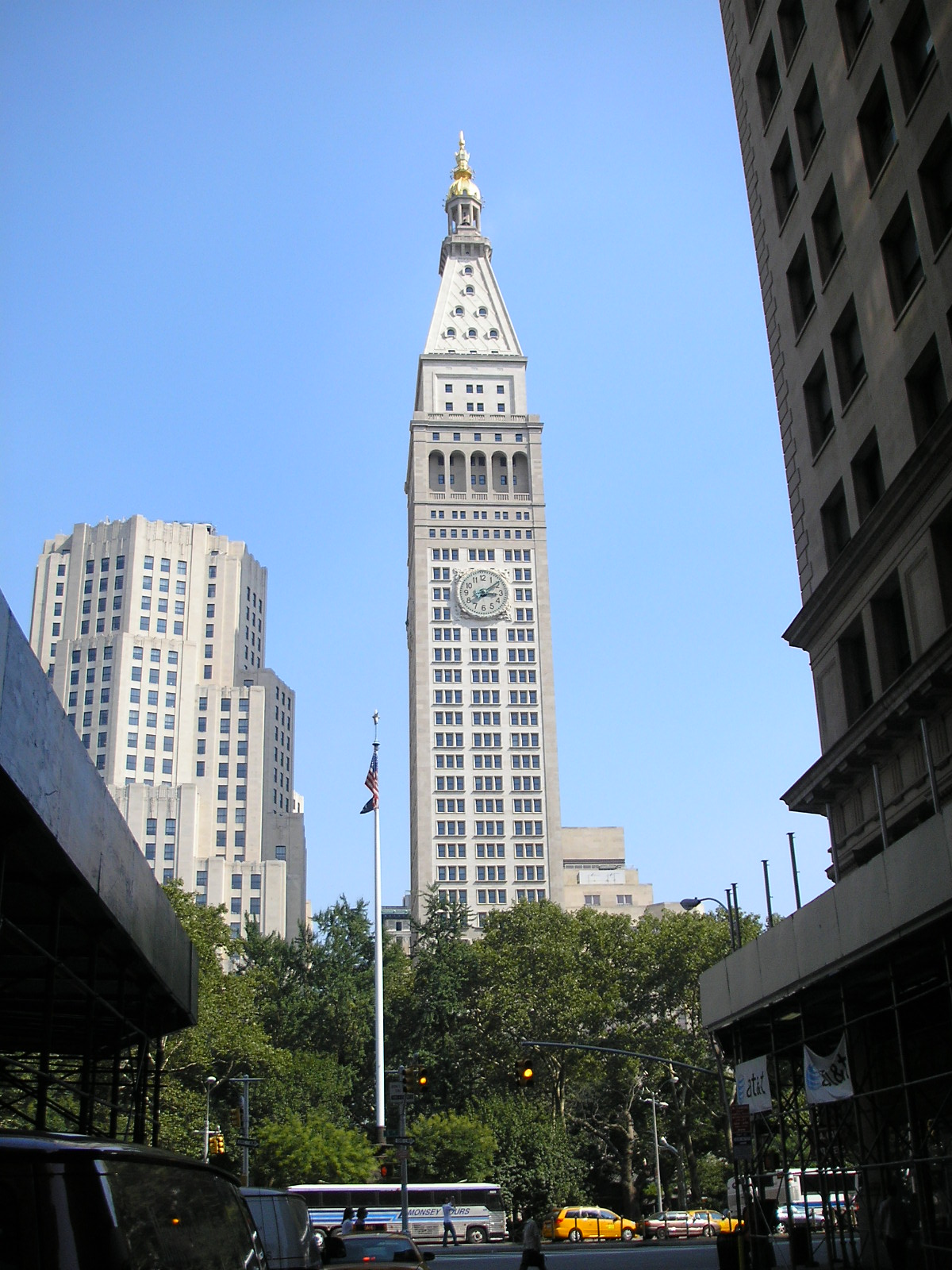 Metropolitan Life Insurance Company Tower at Madison Square in New York City.